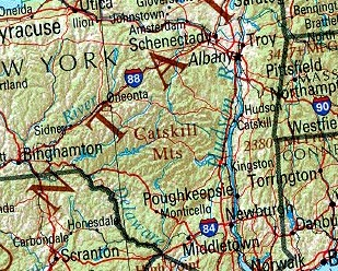 Map of the Catskill Mountains, New York, USA